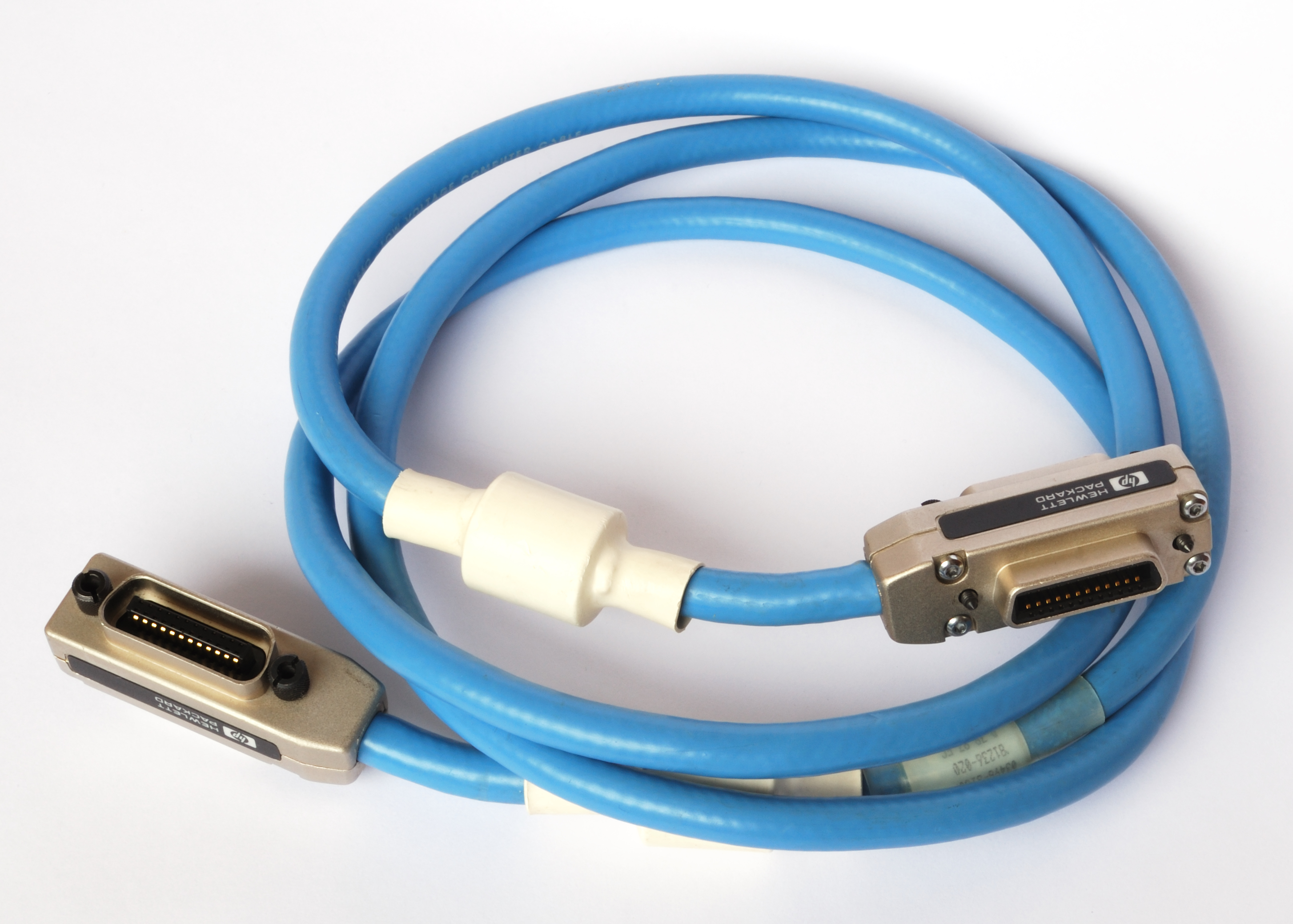 GPIB cable